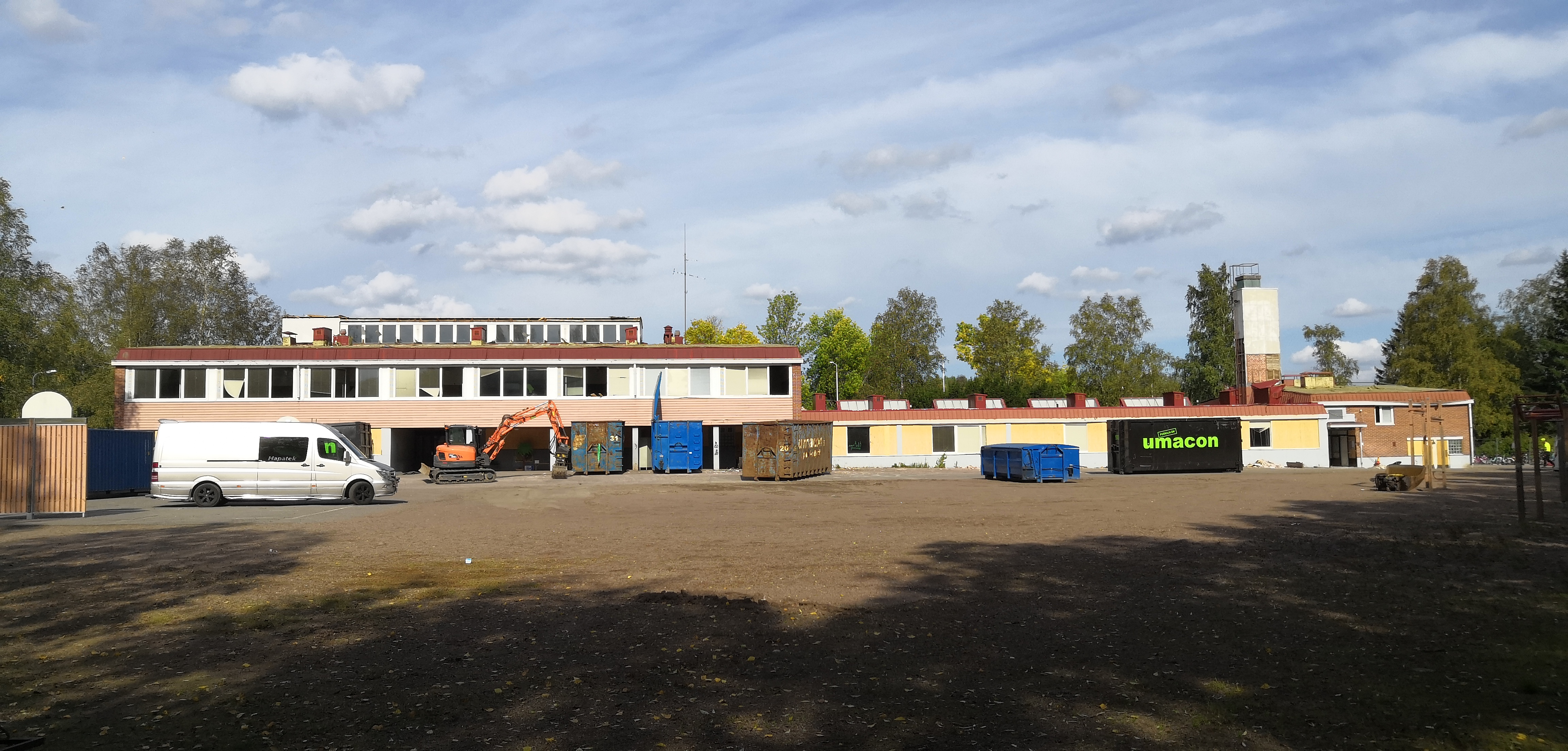 Sarkolan koulu purkutöiden alkaessa